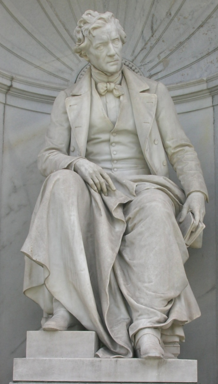 A statue of Franz Grillparzer, by Carl Kundmann, (1889), in the Volksgarten, Vienna.